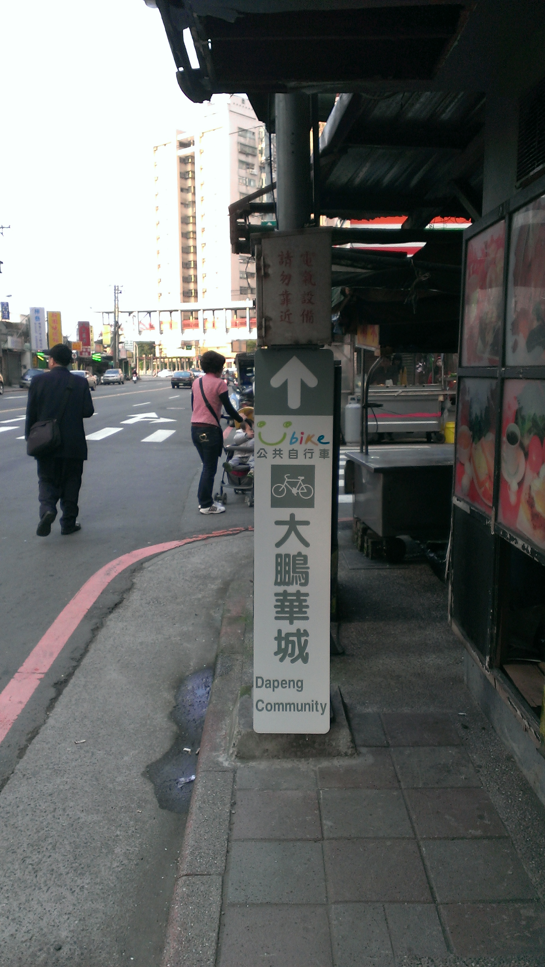 YouBike First Sign in New Taipei City